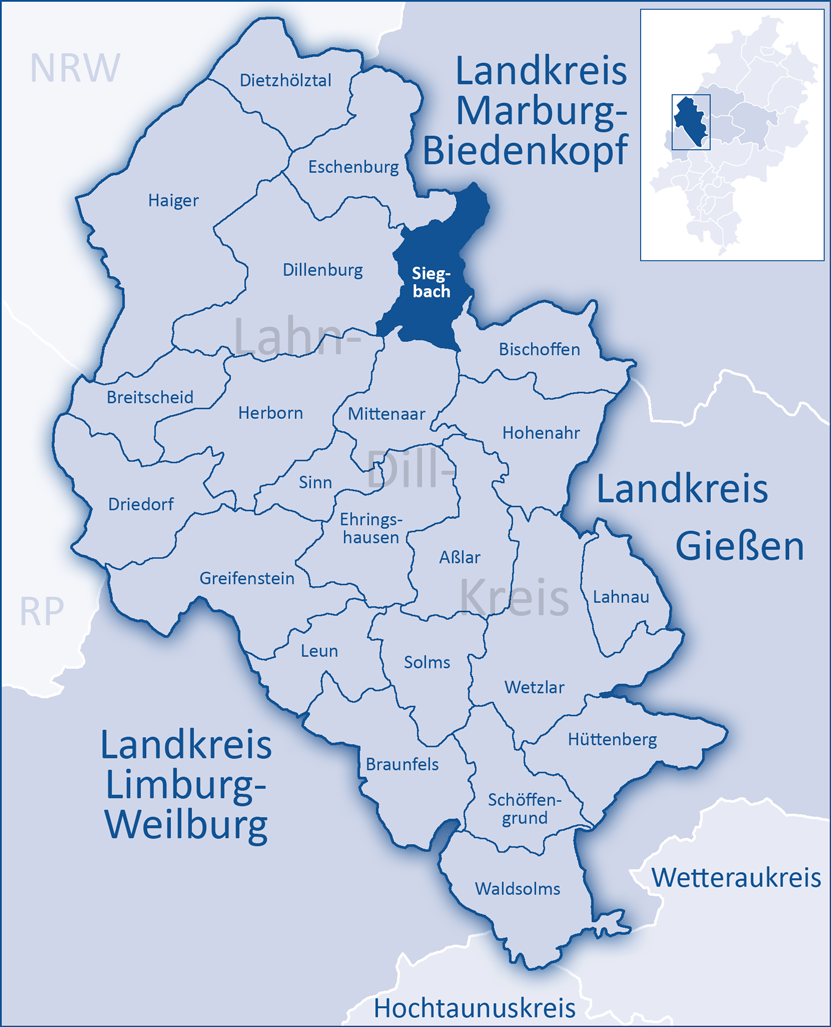 The map shows a district in the area of Lahn-Dill-Kreis